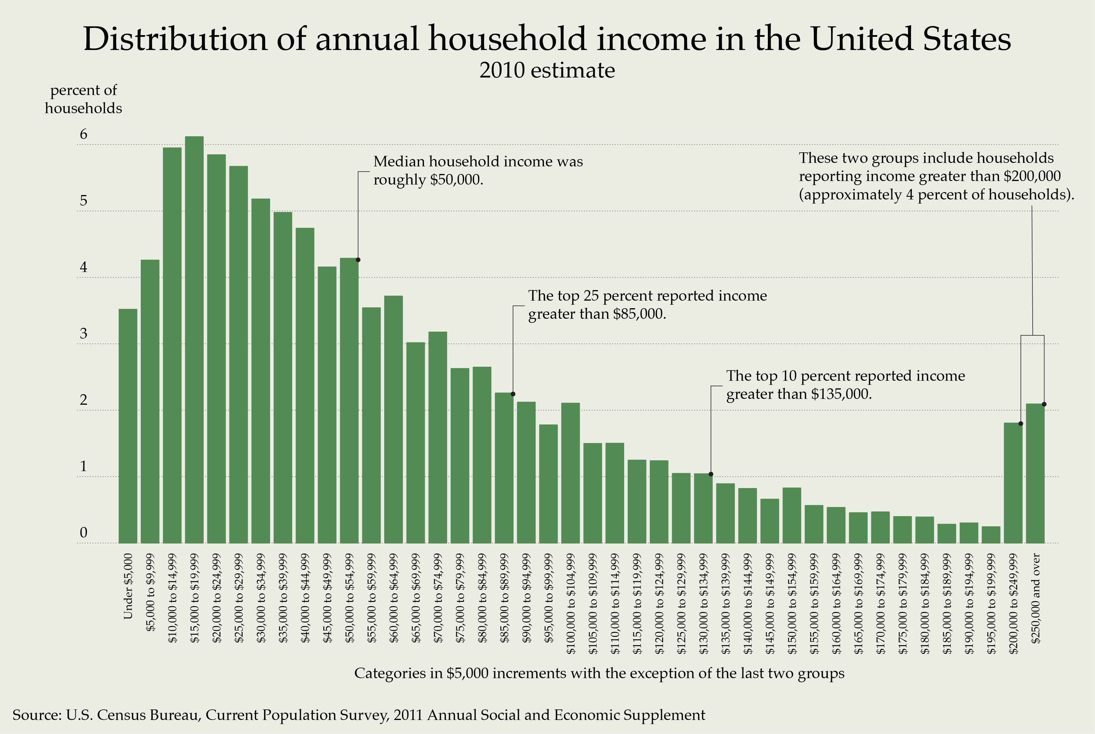 Distribution of Annual Household Income in the United States in 2010. Based on US Census/Bureau of Labor Statistics data from the March supplement of the CPS